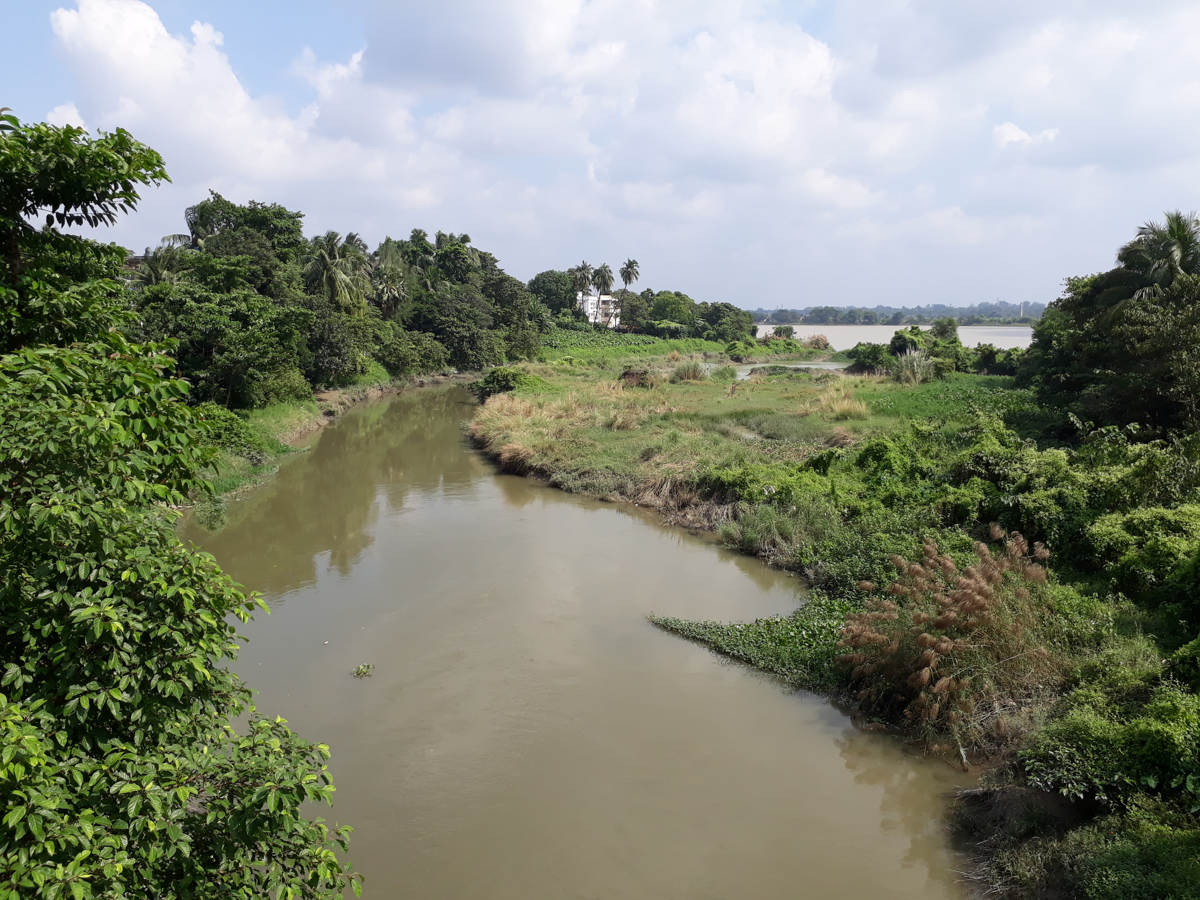 ত্রিবেনী (হুগলী) তে সরস্বতী নদীর মোহনা।